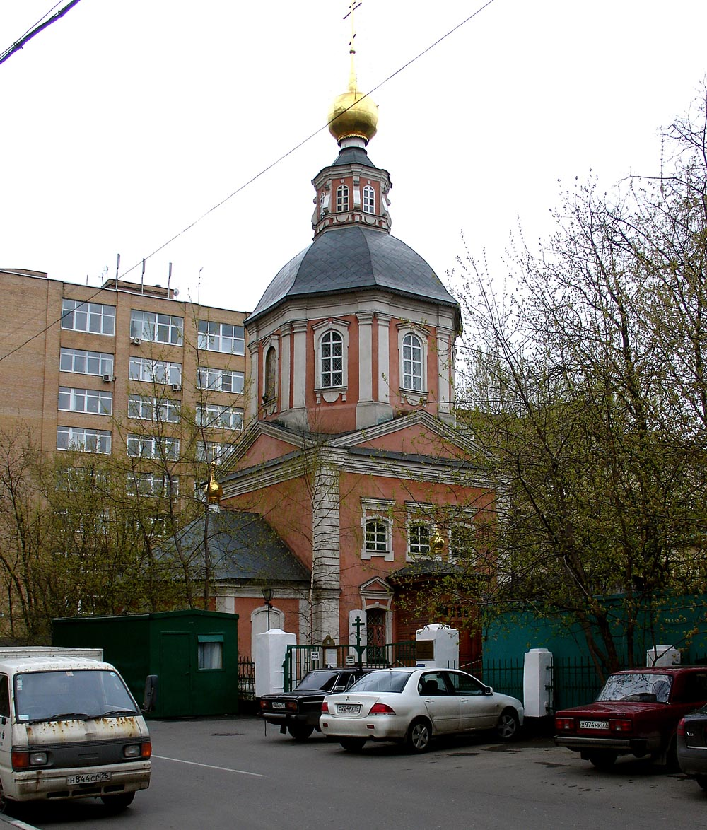 Сhurch of Saviour Transfiguration in Bolvanovka; Moscow, Zamoskvorechye District